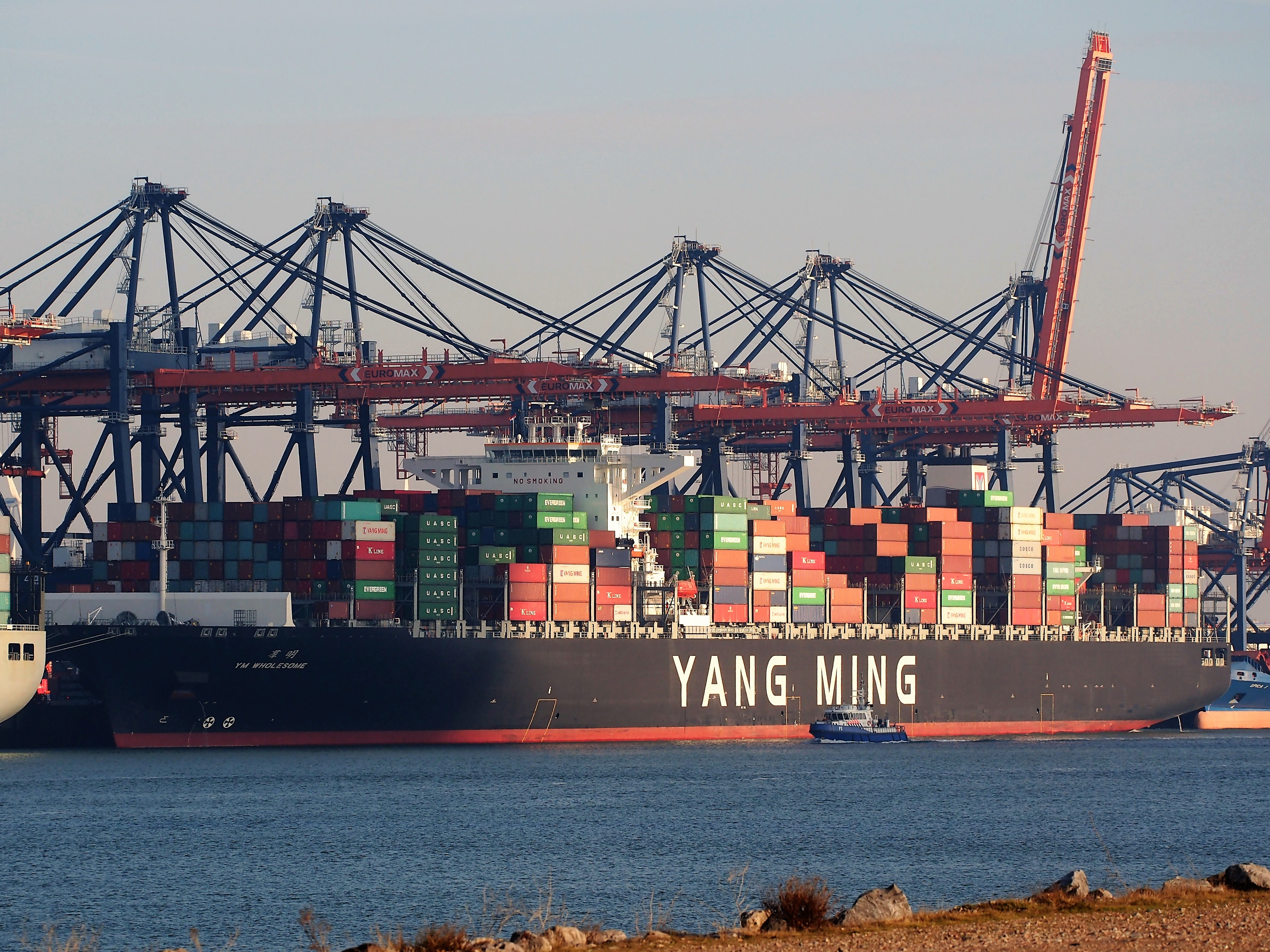 YM Wholesome (ship, 2016) IMO 9704611 Port of Rotterdam.